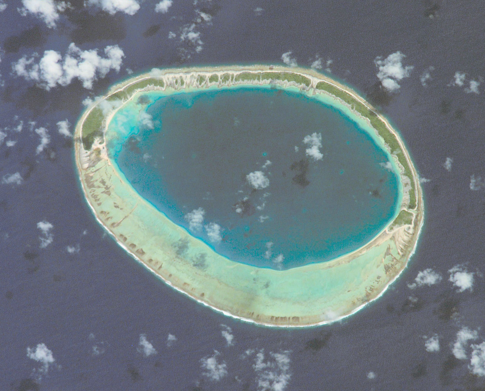 Hiti Atoll, Raeffsky Islands, Tuamotu Archipelago, French Polynesia, from space